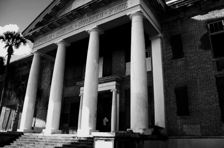 Photo of the Annie Lytle School I took in 2012.